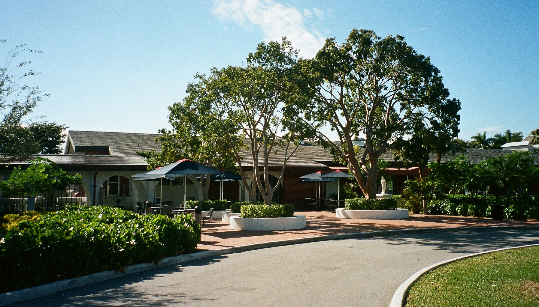 Christopher Columbus High School campus